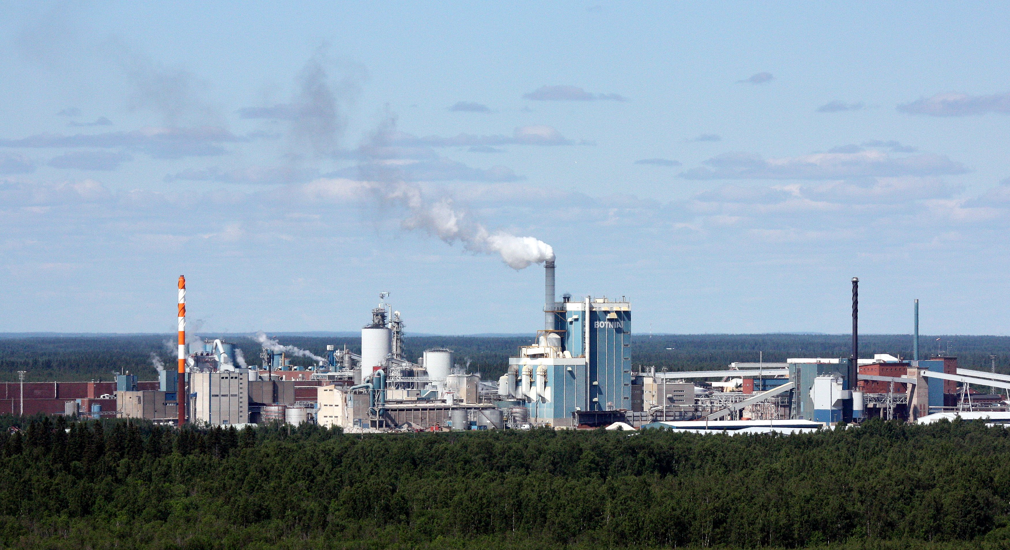 The pulp mill of Metsä-Botnia Oy in Kemi, Finland.